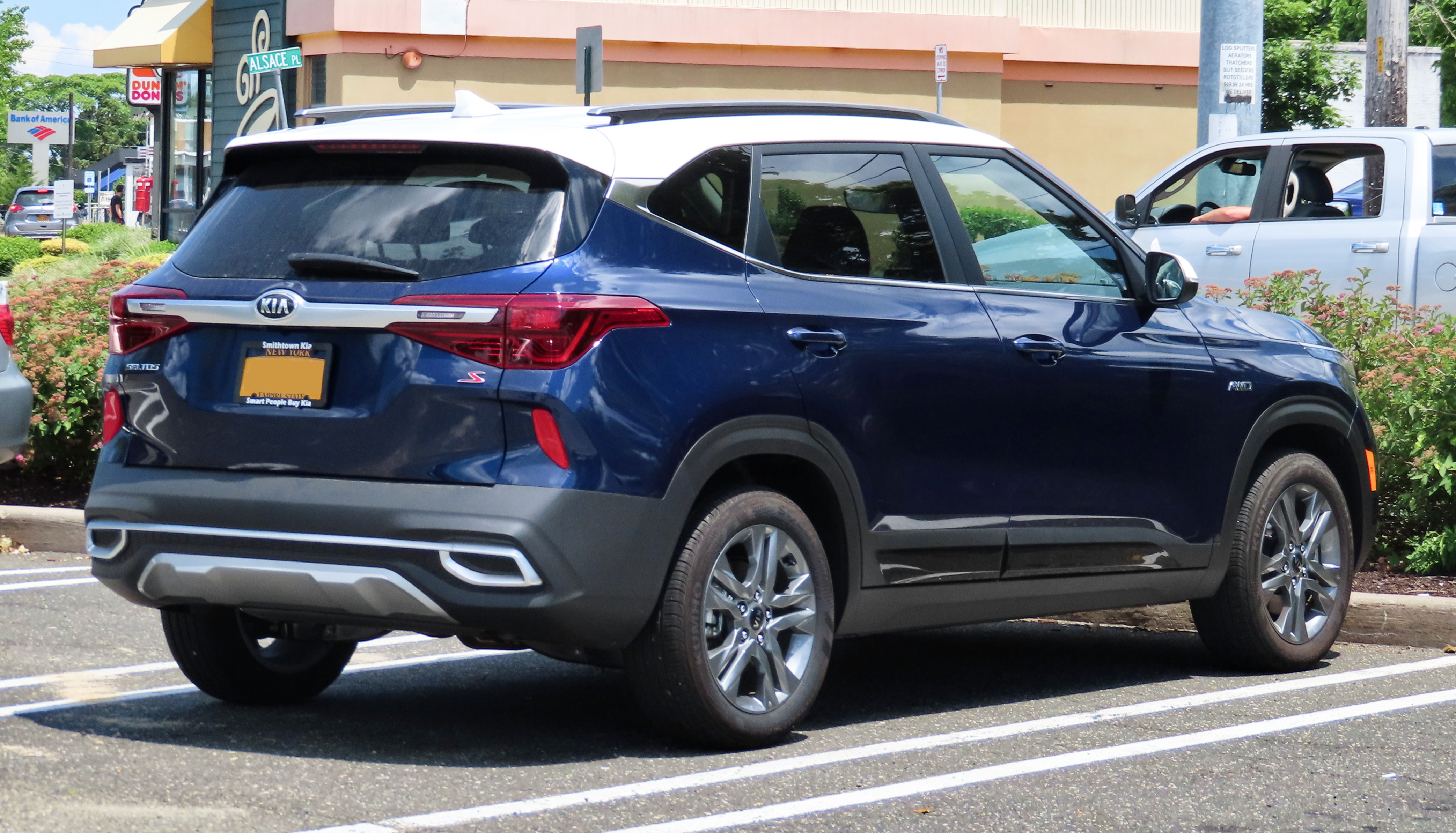 A 2021 Kia Seltos S photographed in Northport, New York, USA